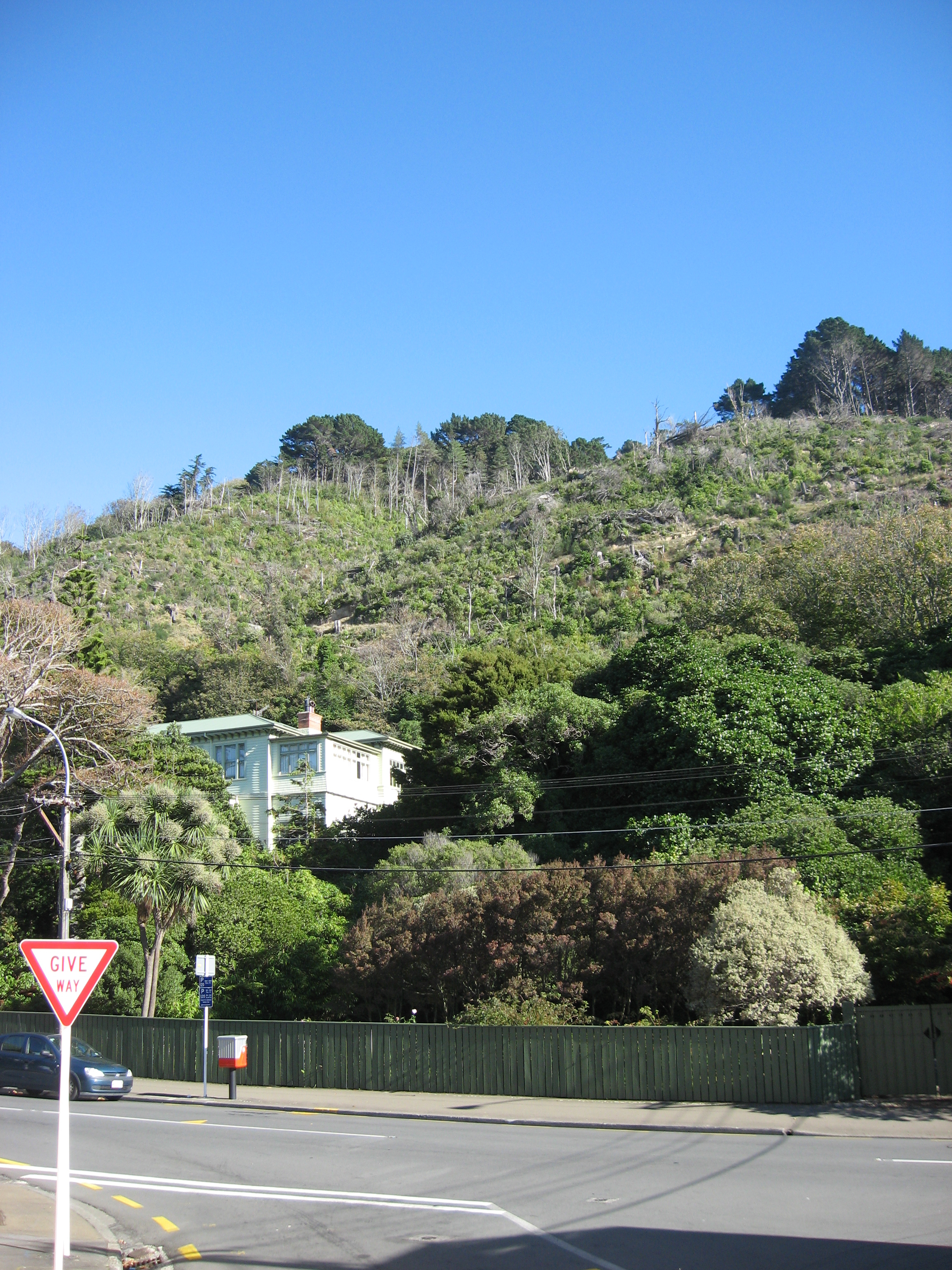 Premier House, 260 Tinakori Road, Thorndon, Wellington, New Zealand